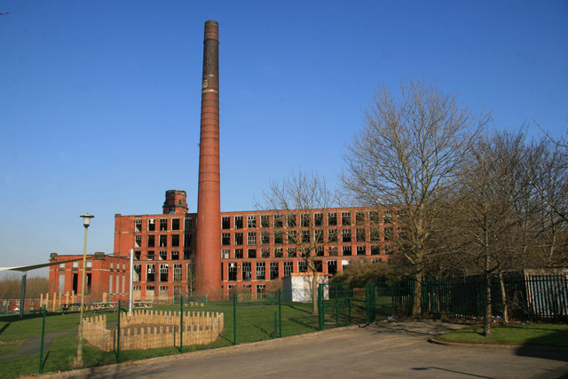 Hartford Mill, Oldham. Listed Grade II (really). Demolition appears to be imminent. The urban explorers have been all over it and the vandals have trashed it. Built 1907 by the Hartford Mill (Oldham)Co Ltd. Extended 1920 and 1924. Closed 1959 and used by Littlewoods as a mail order warehouse until 1992. Architect was F W Dixon, there were 120,000 spindles and power was provided by a very impressive 1500 hp Urmson & Thompson engine.